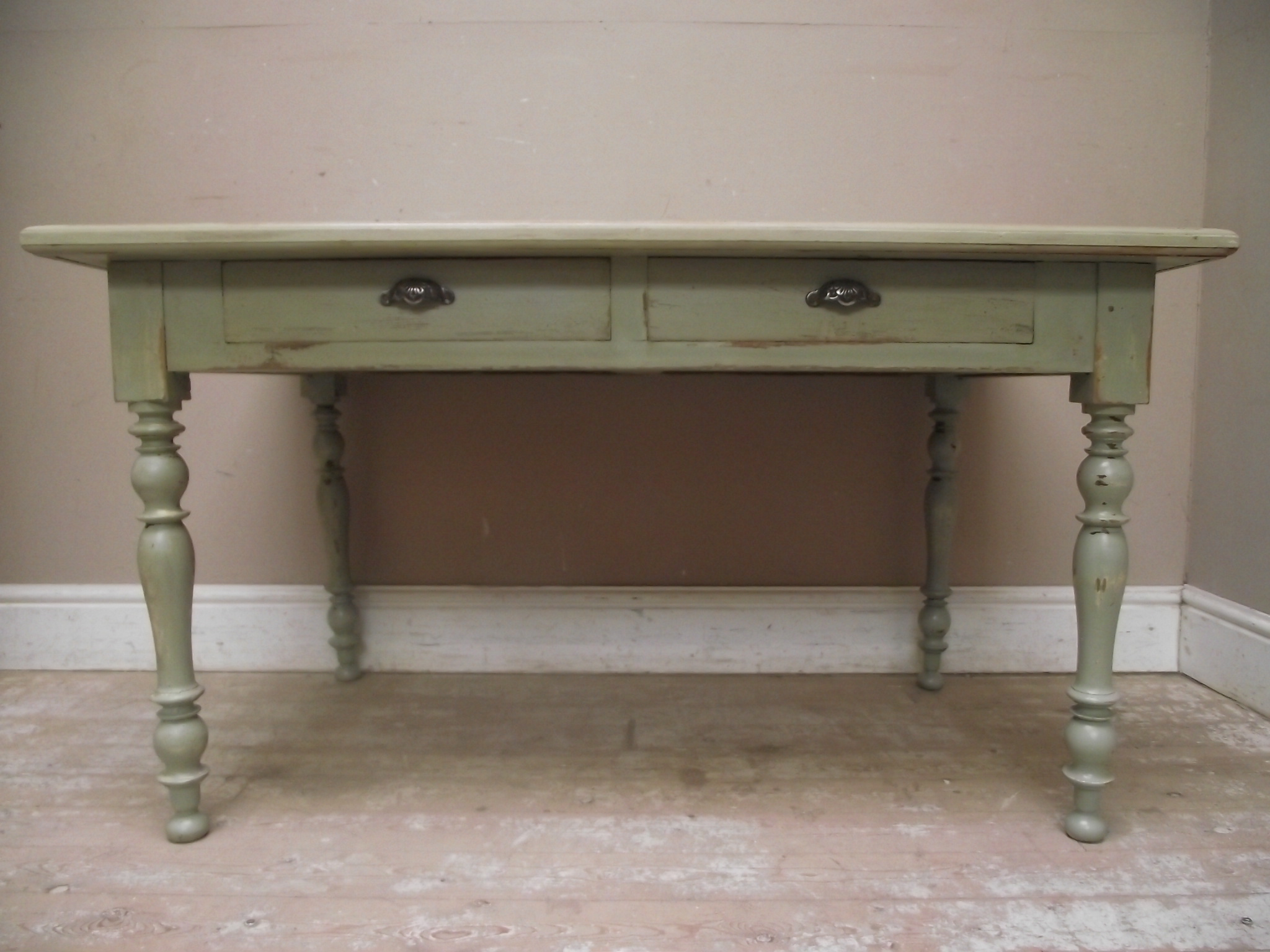 A table with a distressed, shabby chic-style finish.